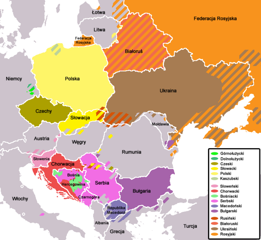 Map of Slavic languages in Polish.